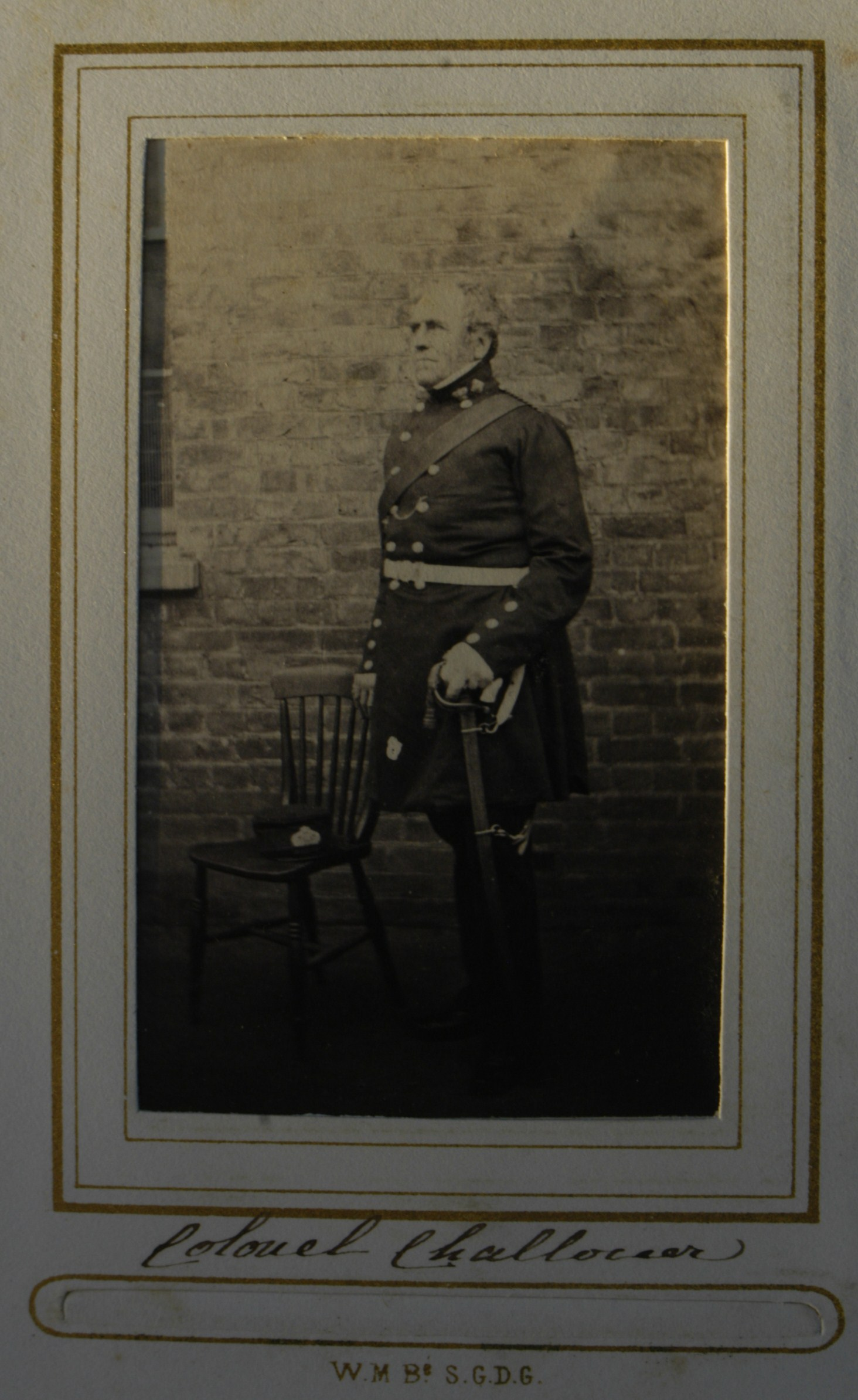 My digital photo (R. de SalisRodolph (talk) 23:48, 27 May 2014 (UTC)) of a carte de visite of Thomas-Chaloner Bisse-Challoner, standing, dressed as Colonel of the Surrey militia.